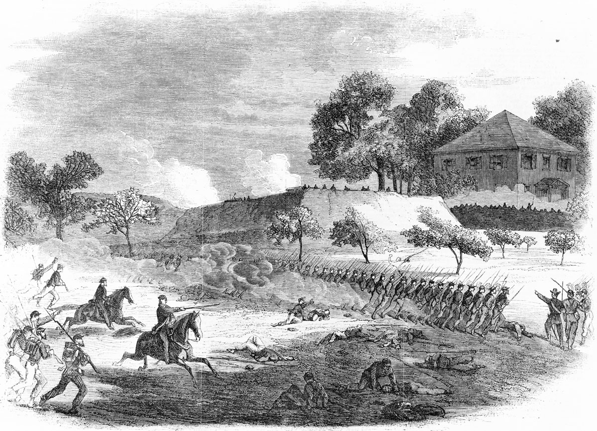 The war in Virginia - the 18th Army Corps storming a fort on the right of the Rebel line before Petersburg, June 15 / sketched by our special artist, E. Forbes.